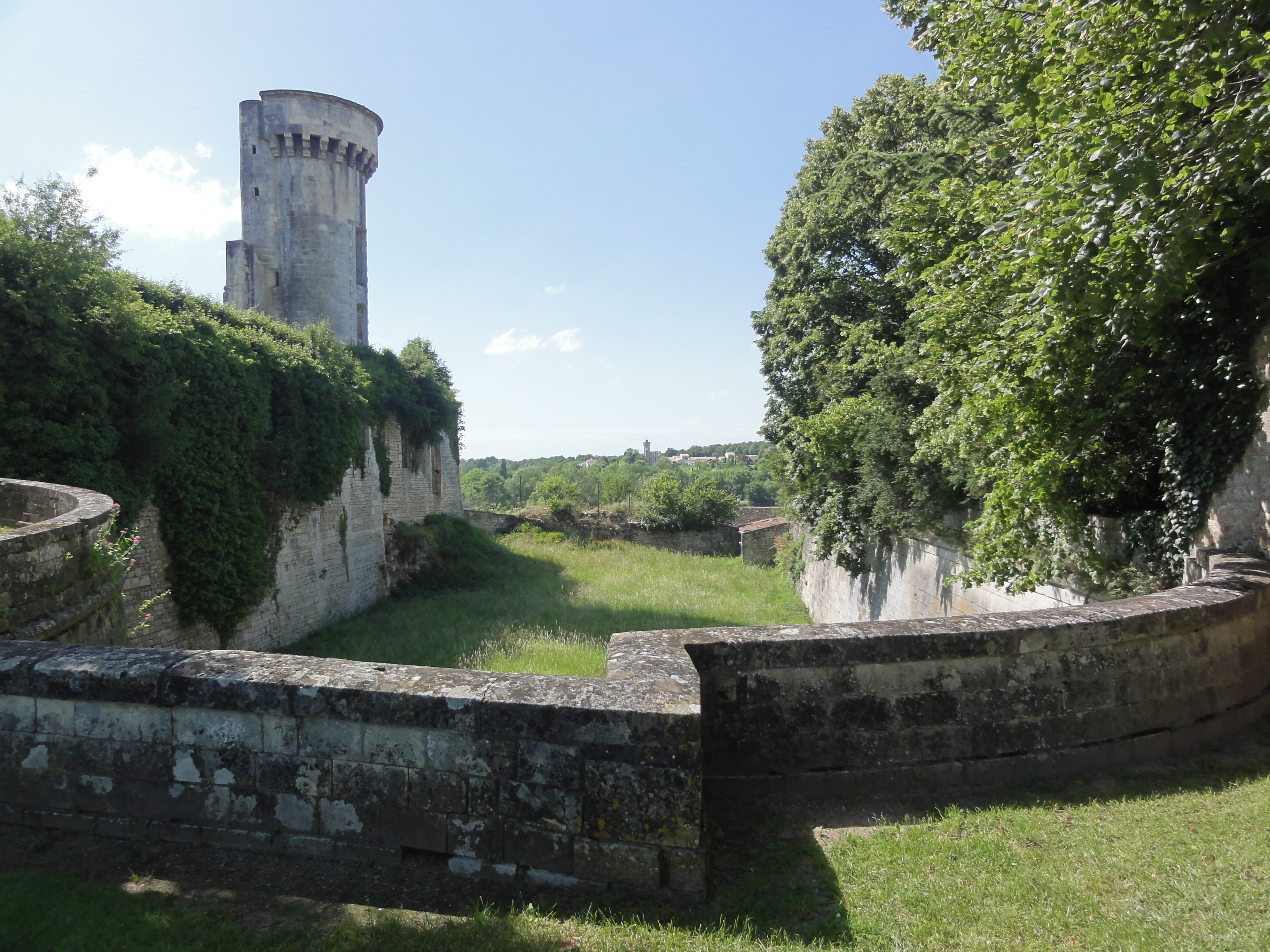 Taillebourg (Charente-Maritime) château, la tour This building is en partie classé, en partie inscrit au titre des Monuments Historiques. .